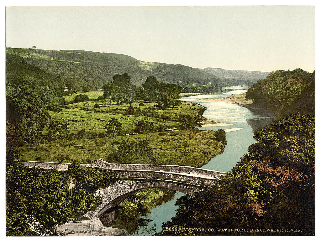 [Blackwater River, Lismore. County Waterford, Ireland] [between ca. 1890 and ca. 1900]. 1 photomechanical print : photochrom, color. Notes: Title from the Detroit Publishing Co., catalogue J--foreign section. Detroit, Mich. : Detroit Photographic Company, 1905.. Print no. "12098". Forms part of: Views of Ireland in the Photochrom print collection. Subjects: Ireland--County Waterford. Format: Photochrom prints--Color--1890-1900. Repository: Library of Congress, Prints and Photographs Division, Washington, D.C. 20540 USA, Part Of: Views of Ireland (DLC) 2001700656 More information about the Photochrom Print Collection is available at Persistent URL: Call Number: LOT 13406, no. 098 [item] This image is available from the United States Library of Congress's Prints and Photographs division under the digital ID missing.This tag does not indicate the copyright status of the attached work. A normal copyright tag is still required. See Commons:Licensing for more information.